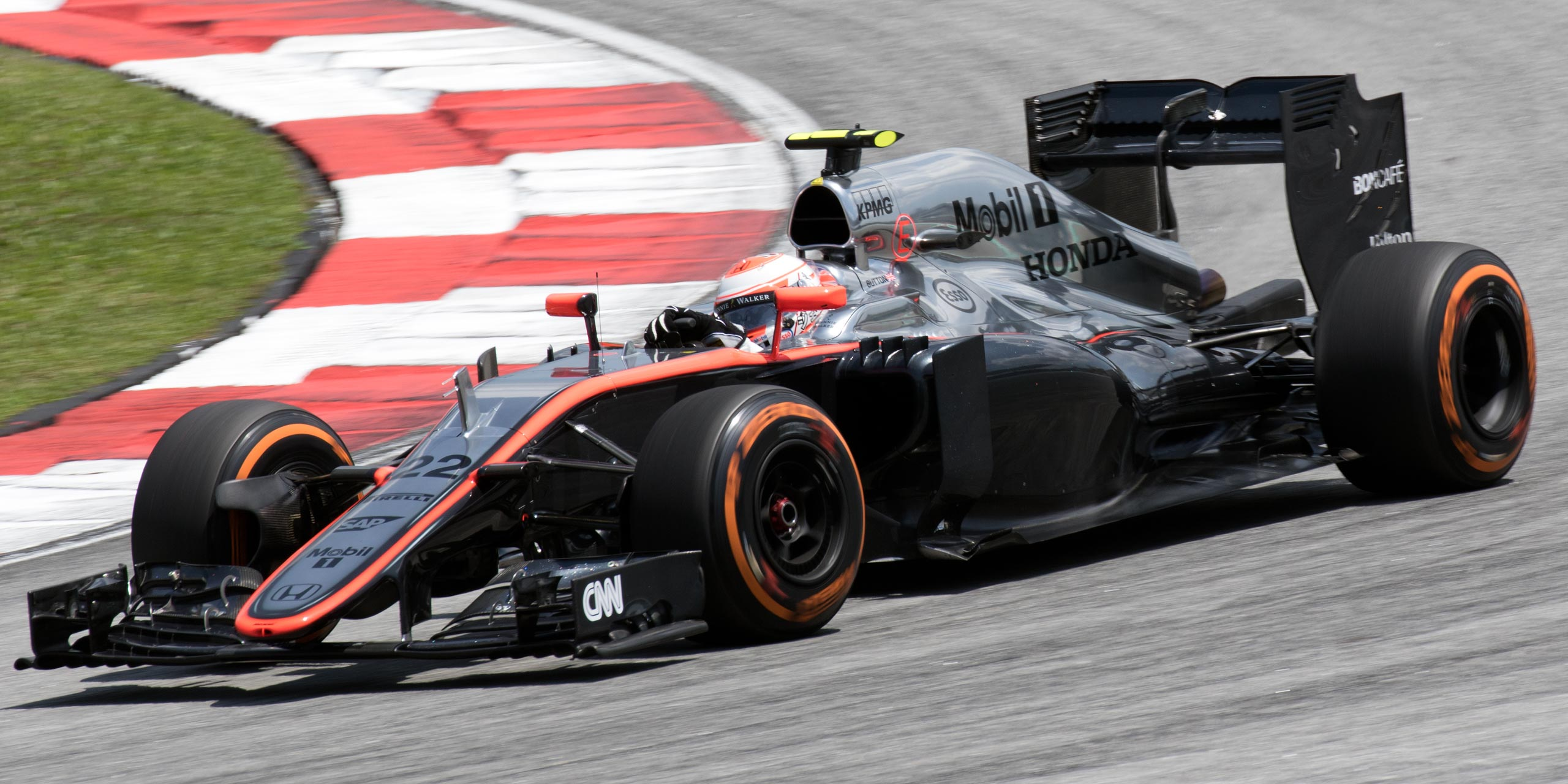 Formula One 2015 Rd.2 Malaysian GP: Jenson Button (McLaren)